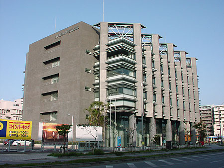 Okinawa Development Finance Corporation Building